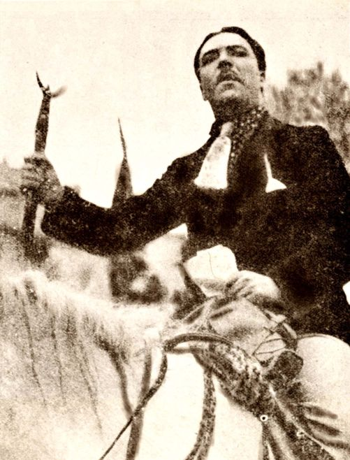 French lawyer and writer Bernard de Montaut-Manse, in 1921